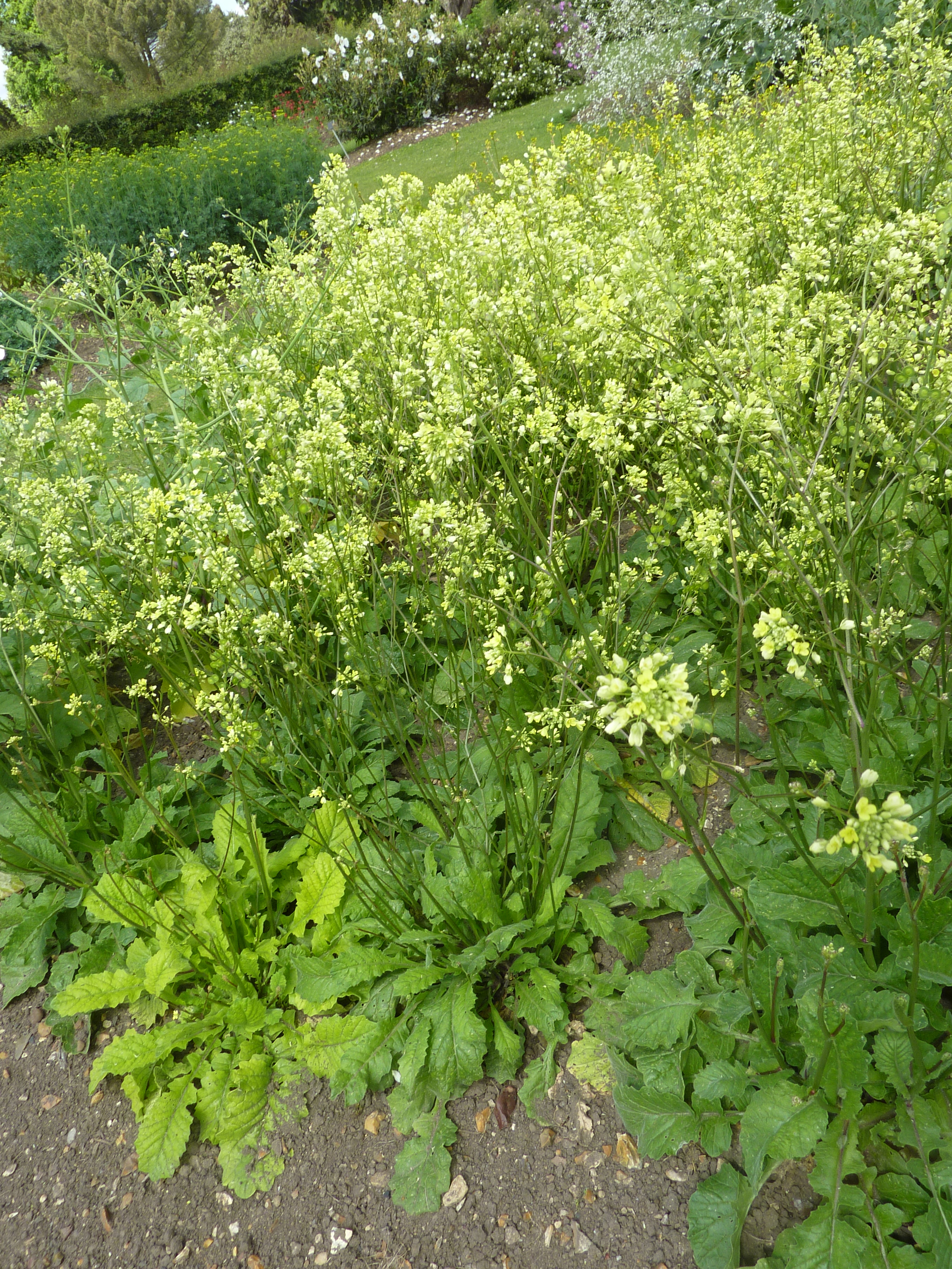 Taken in the Cambridge University Botanic Garden